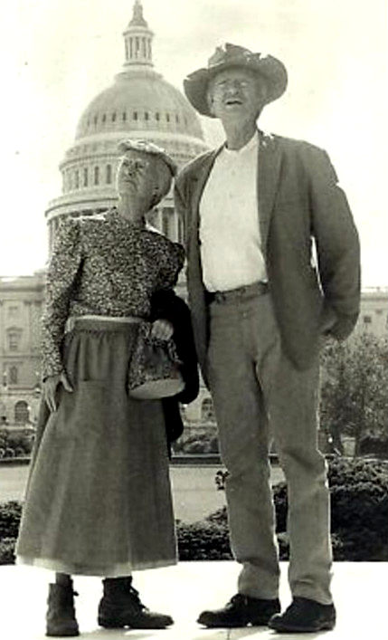 Publicity photo of Buddy Ebsen and Irene Ryan from The Beverly Hillbillies. Episode is "The Clampetts in Washington"